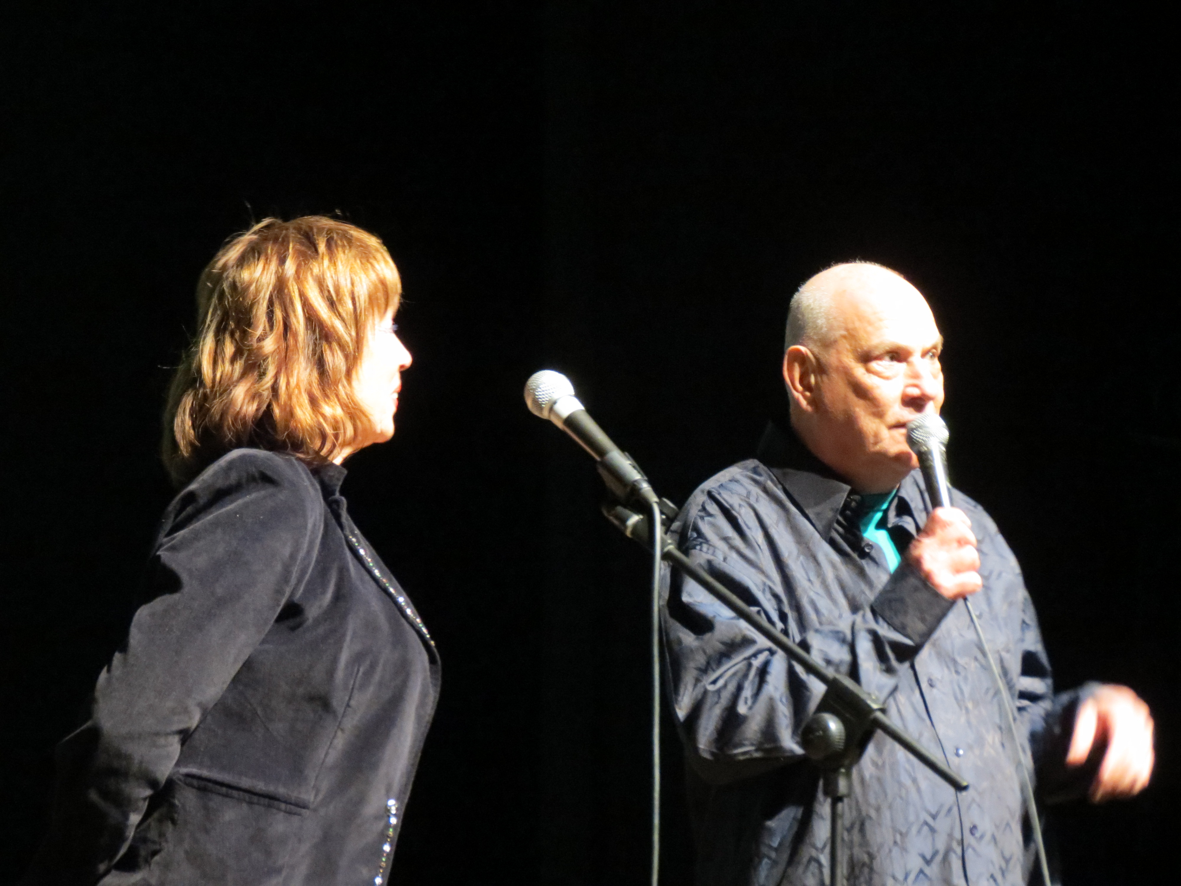 songwriter avi koren (Rt.) and shula chen אבי קורן ושולה חן בהופעה